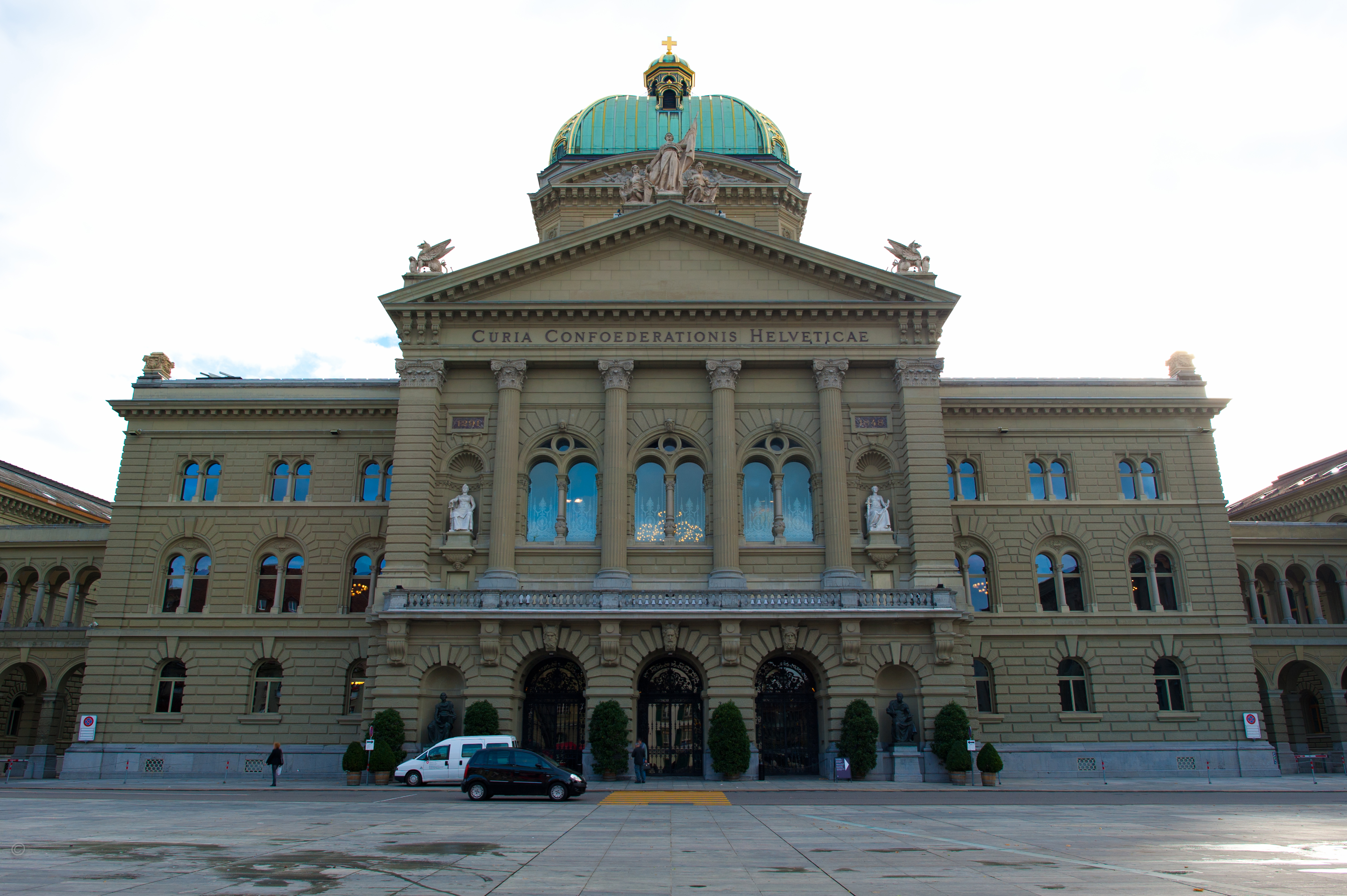 Bern by Badwy, old is Beautiful , Bundshaus